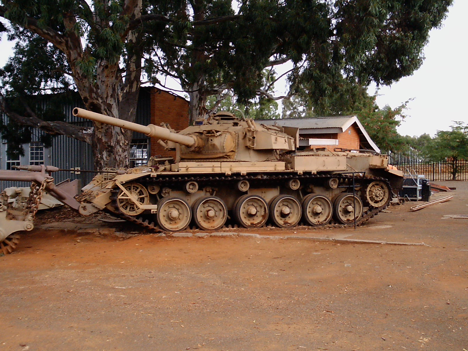 Photo shows the South African version of the Centurion Main Battle Tank. Photo depicts a OIifant Mk Ib Main Battle Tank